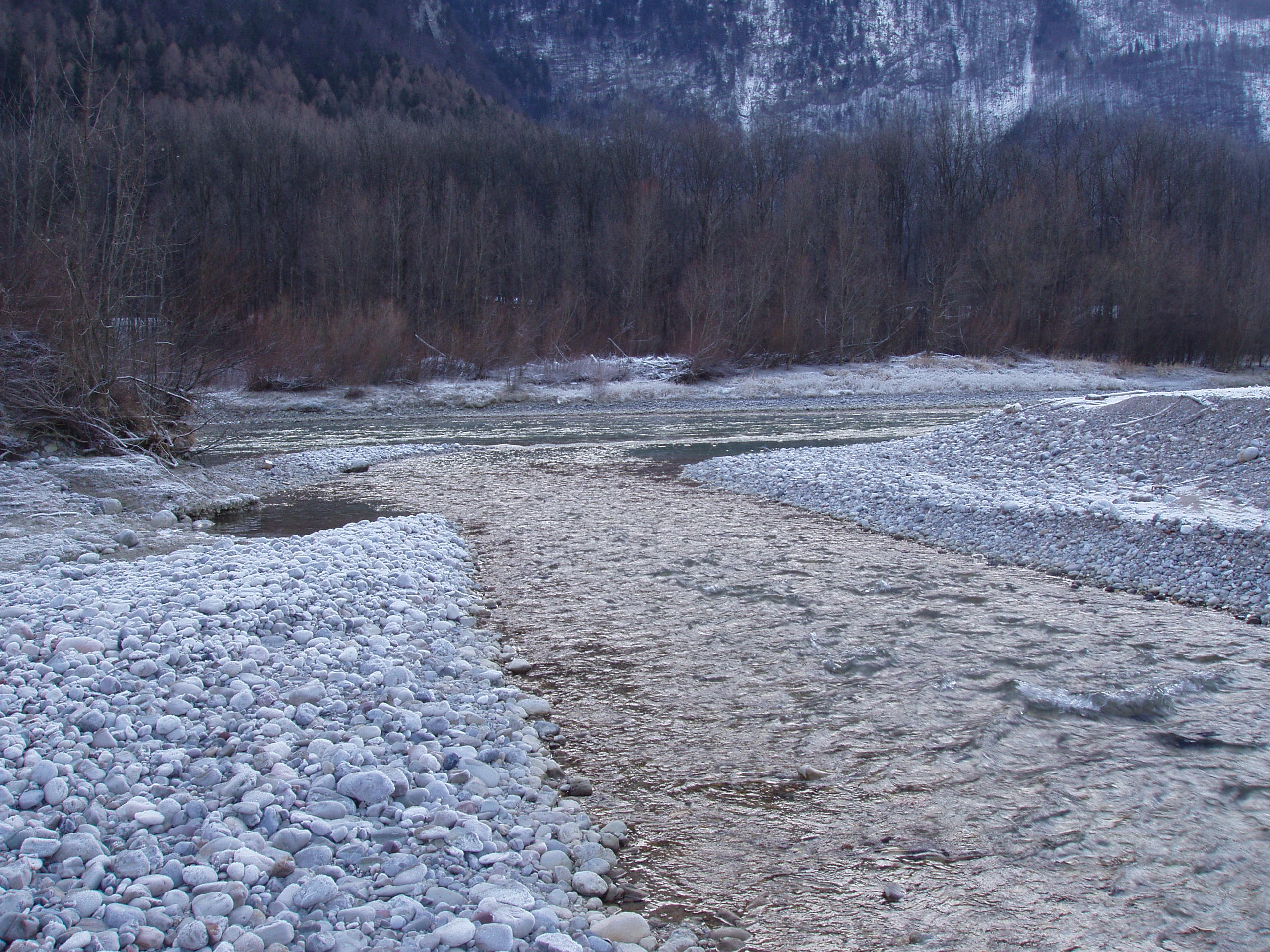 Here flows a part of the Lammer into the Salzach